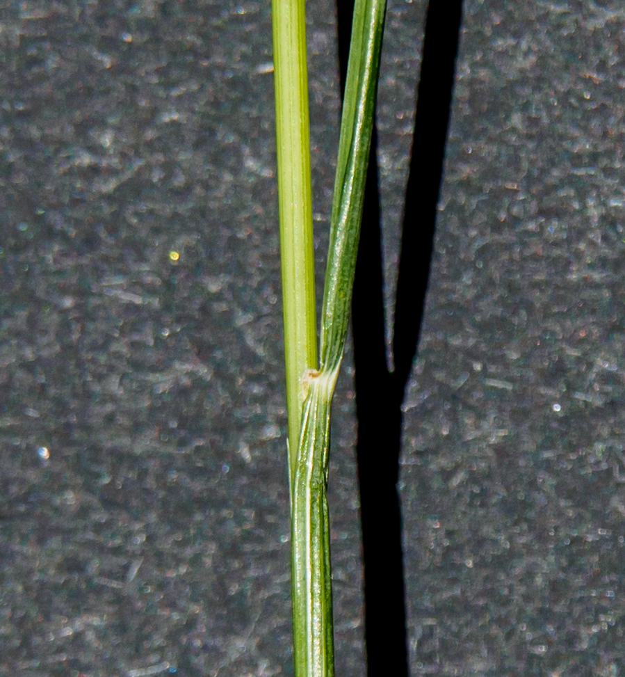 Festuca trachyphylla, node and leaf